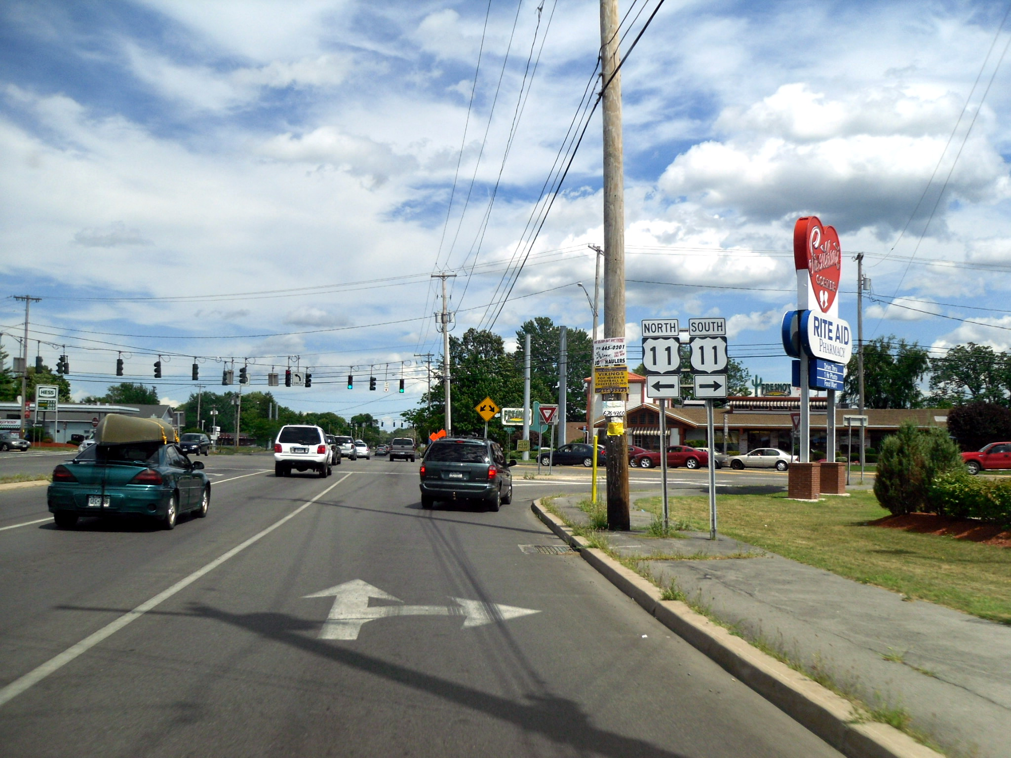 Intersection of US Route 11 and Taft Rd in North Syracuse, New York. Locally known as Sweetheart Corners after a former supermarket, Sweetheart Market.